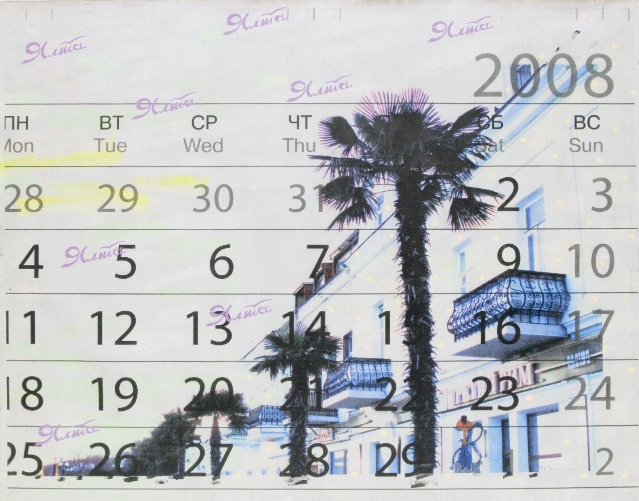 "The Third Rome" acrylic paiting, painted in 2008 by Oleg Tistol, a Ukrainian contemporary art painter.